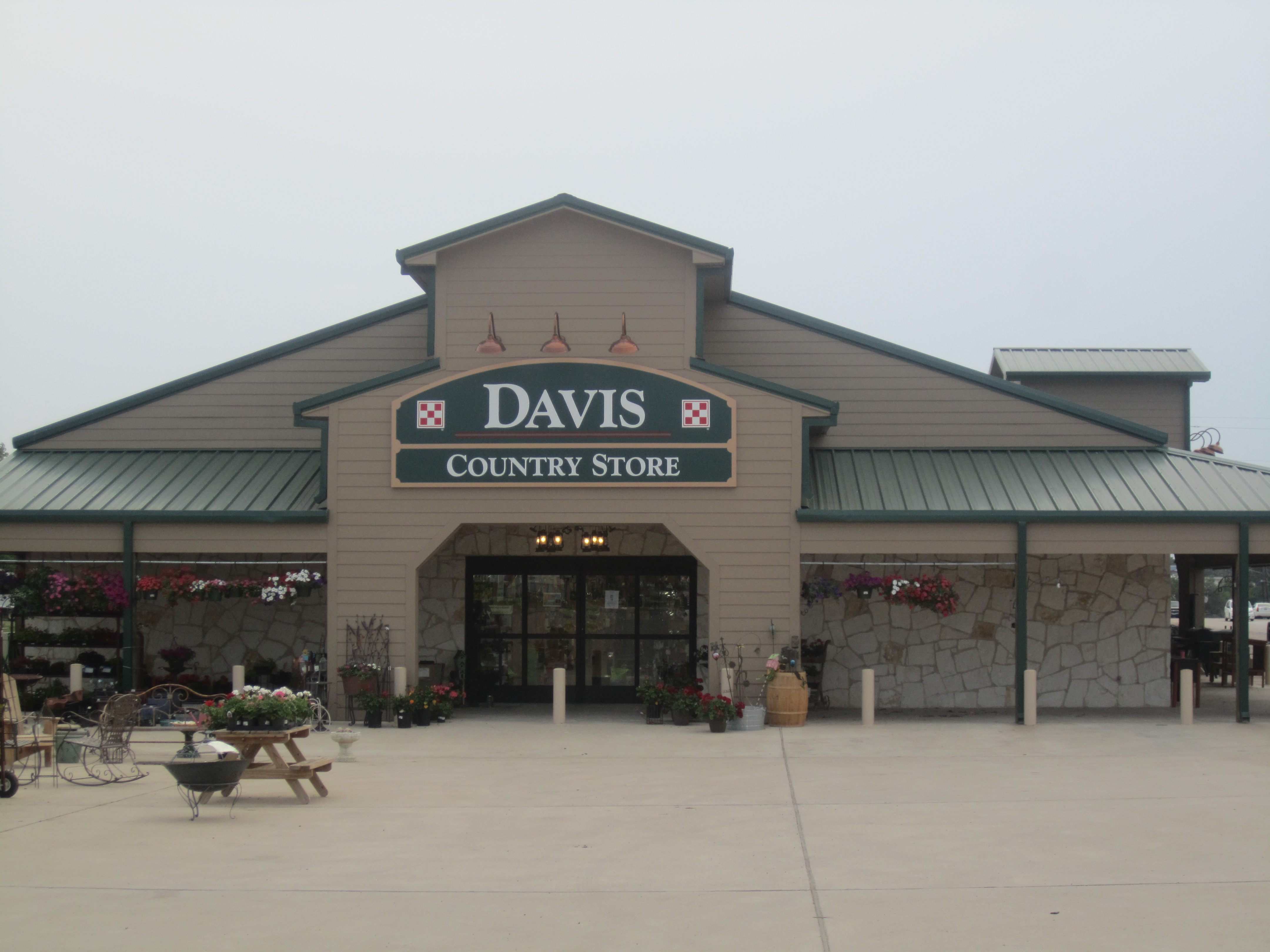 I took photo with Canon camera of Davis Country Store in Buffalo, TX.